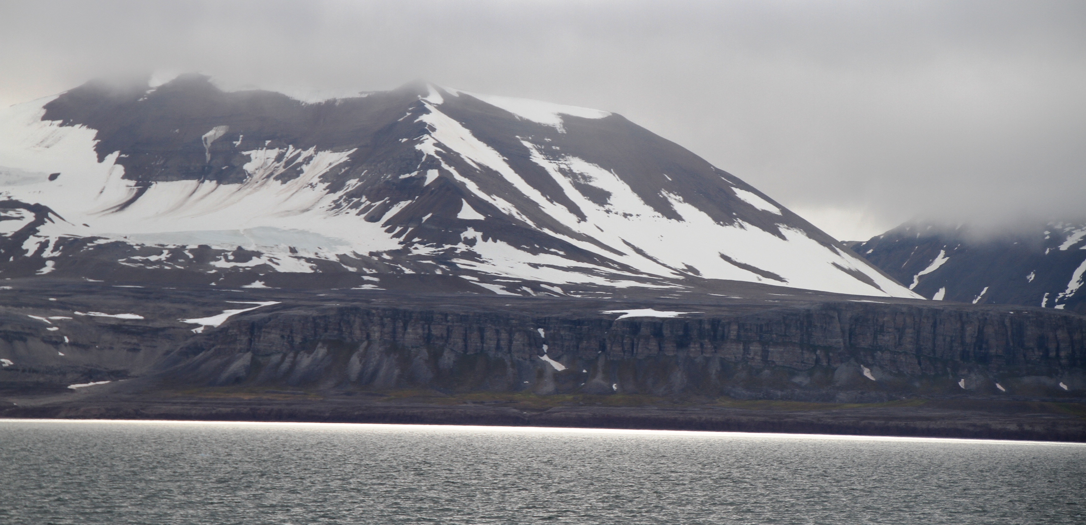 Mountain of northwestern part of Brøggerhalvøya peninsula, north-west of Ny-Ålesund settlement, western Spitsbergen.